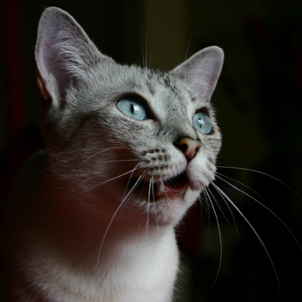 burmilla, female cat, caramia